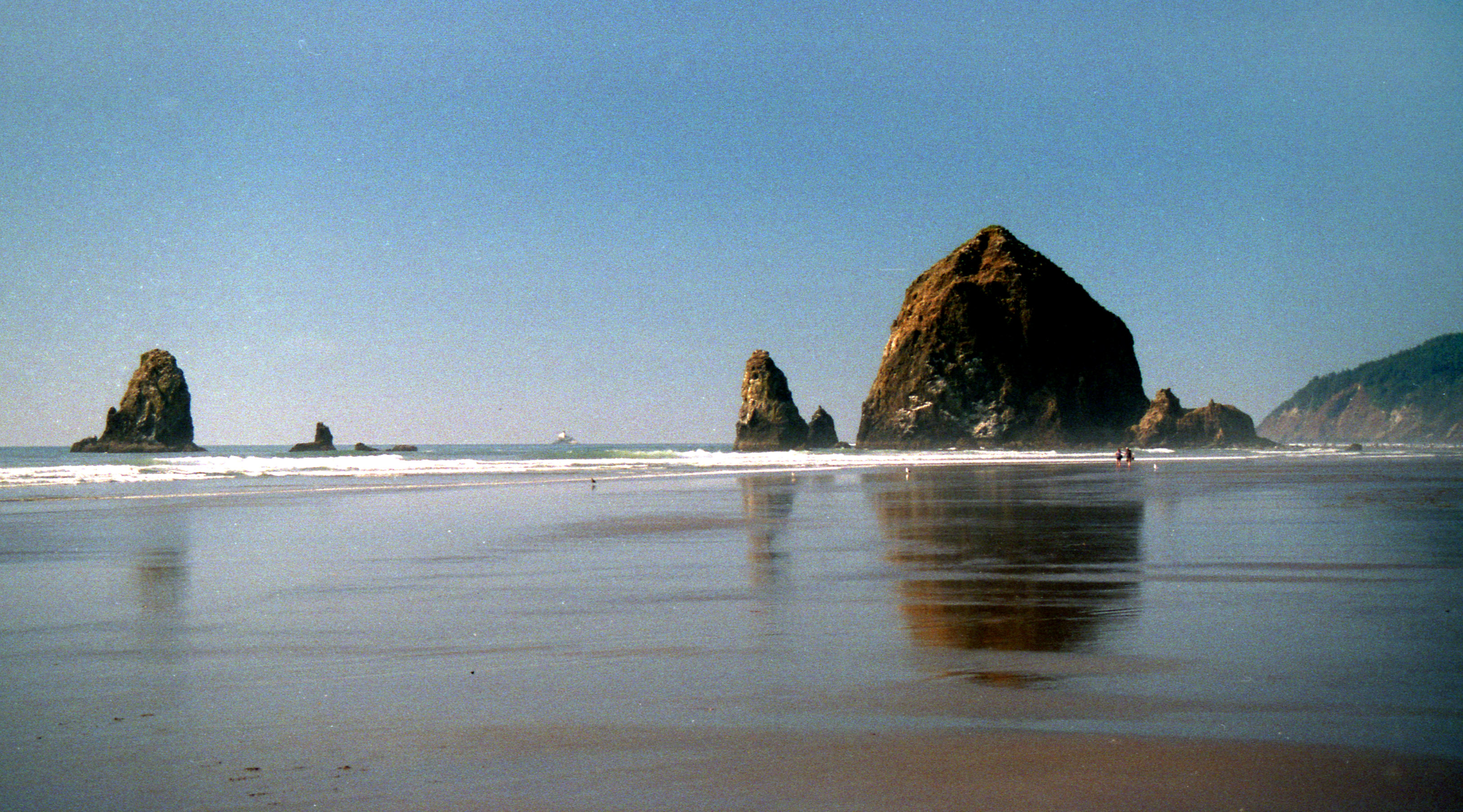 Oregon Coast - Cannon Beach - Haystack Rock